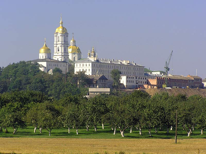 Pochaiv, Ukraine, Ternopil region. The worldfamous Pochaivmonastery (Orthodox Church)